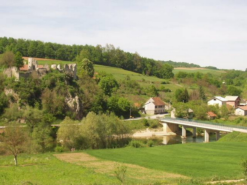 Barilović - Fort and Bridge